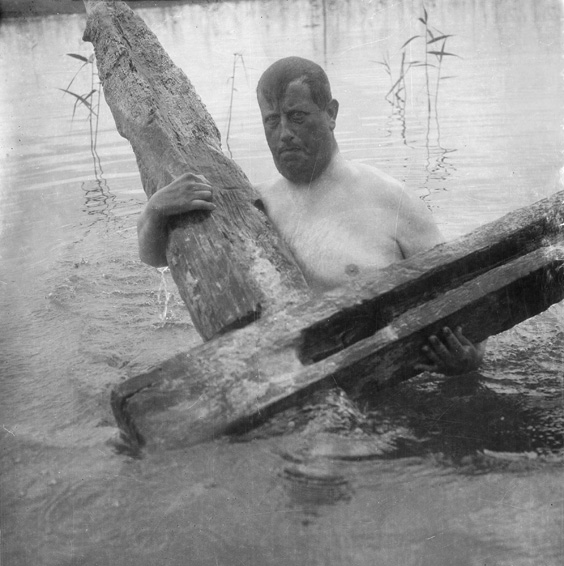 Geologist Lennart von Post retreives a corner section of a house from the Bulverket in Lake Tingstäde, Gotland, Sweden, during the suvey in 1927. Photo cropped by W.carter.